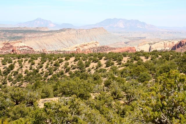 View from Burr Trail toward the Waterpocket Fold